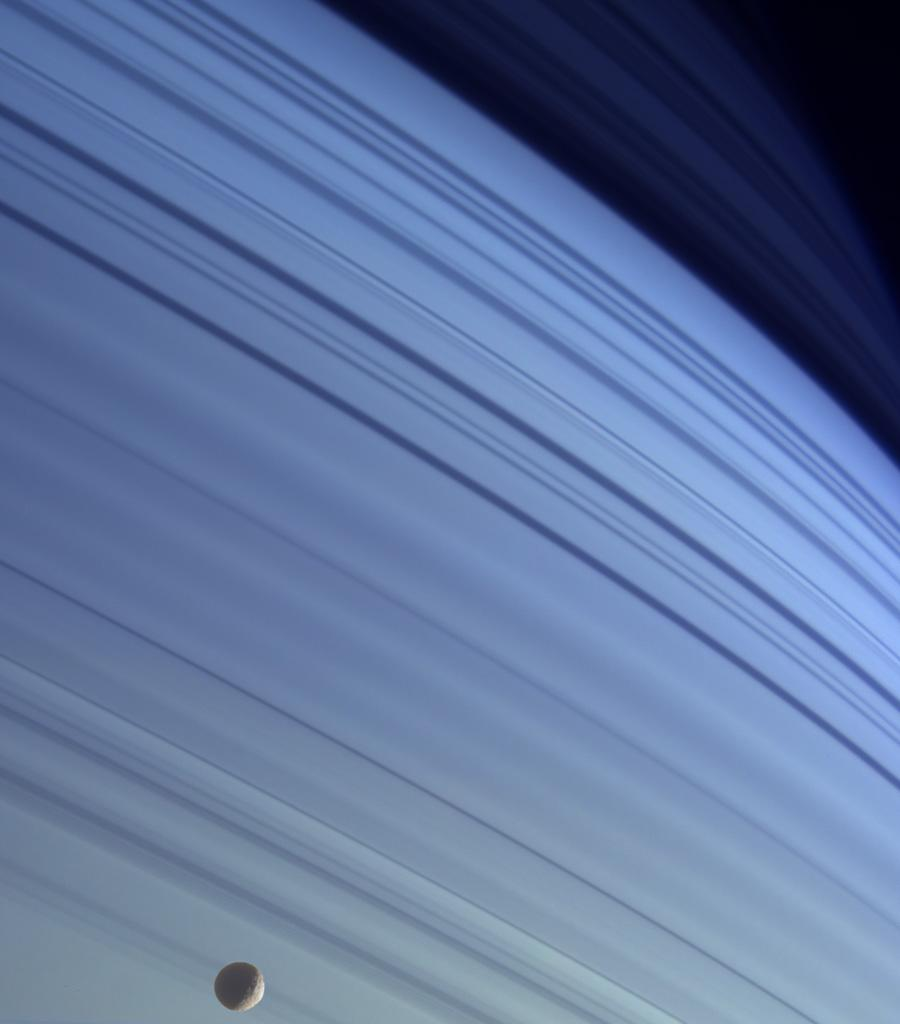 Saturn's northern hemisphere from the Cassini spacecraftSlovenčina: Severná pologuľa Saturna zo sondy Cassini